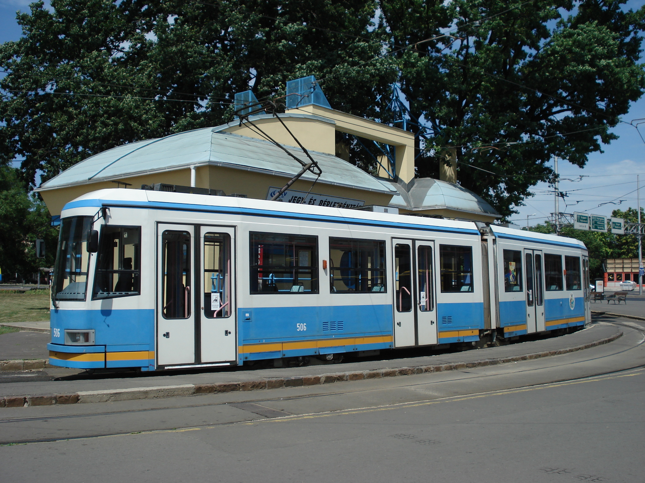 Tram outside the train station in Debrecen, Hungary. Taken by David Sallay, June, 2007.